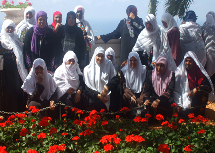 Women's Day, Tourism in Israel